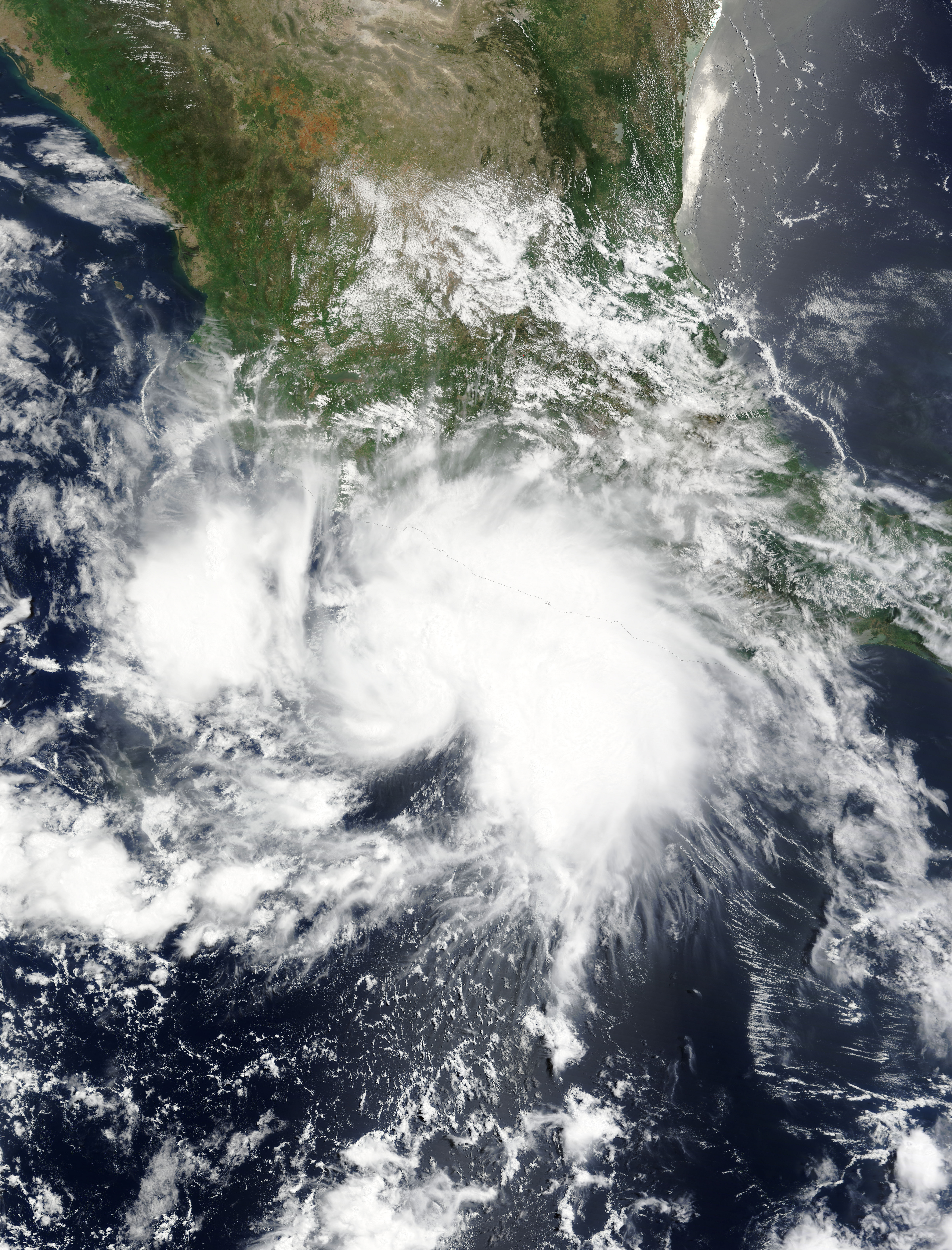 Tropical Storm Dolores over the coast of south Mexico on July 12, 2015